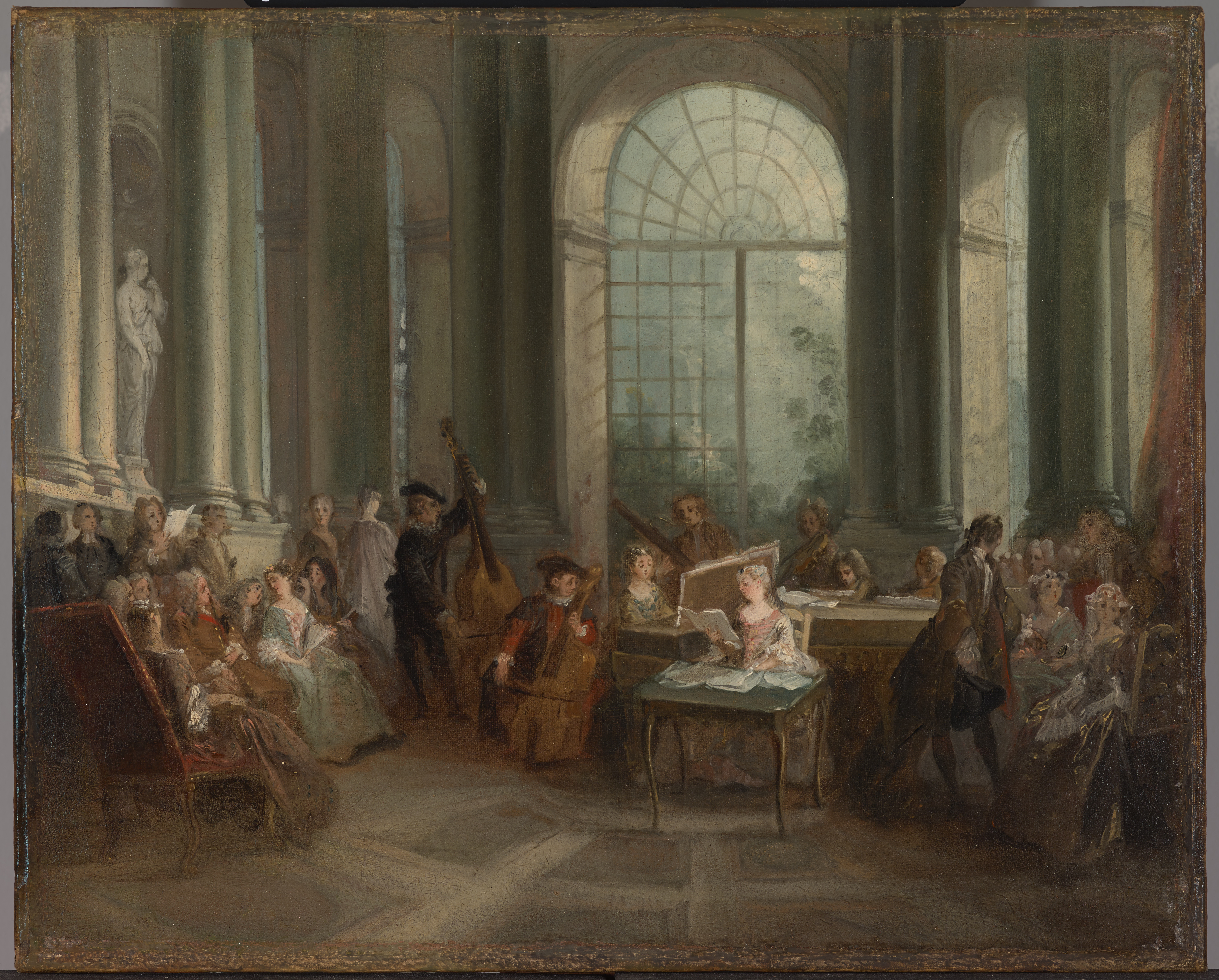 Concert dans le salon ovale du château de Pierre Crozat à Montmorency. Dallas museum of art, inv. 29.2004.3, par Nicolas Lancret, vers 1720.